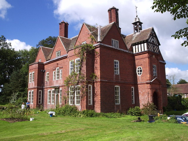 Cefnbryntalch, Llandyssil. This impressive and historic house, with numerous domestic offices and outbuildings including an adjoining farm, was once the home of the composer Peter Warlock. Land nearby has recently been turned into a green burial site.